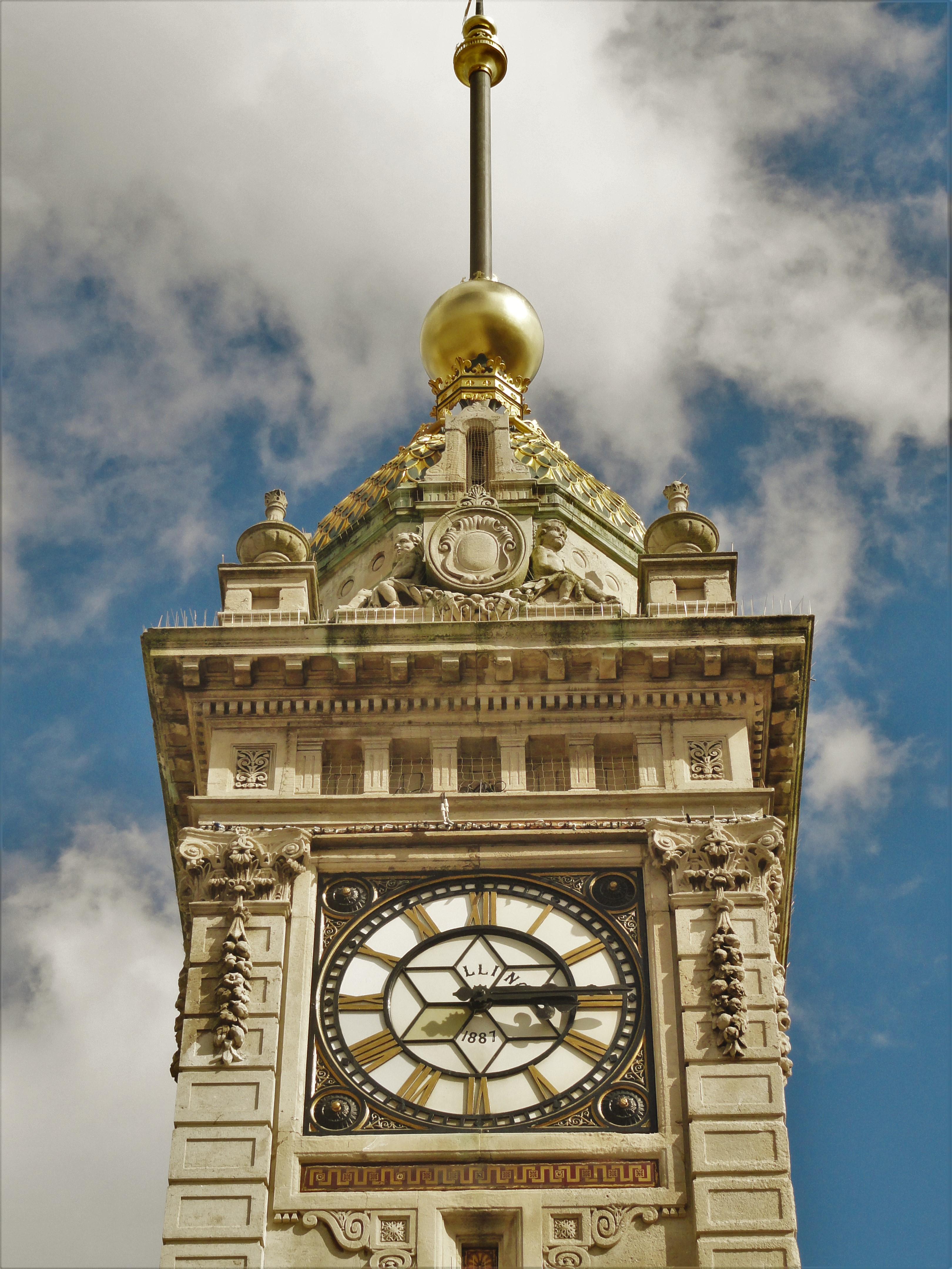 Close up shot of Jubilee Clock Tower in Brighton